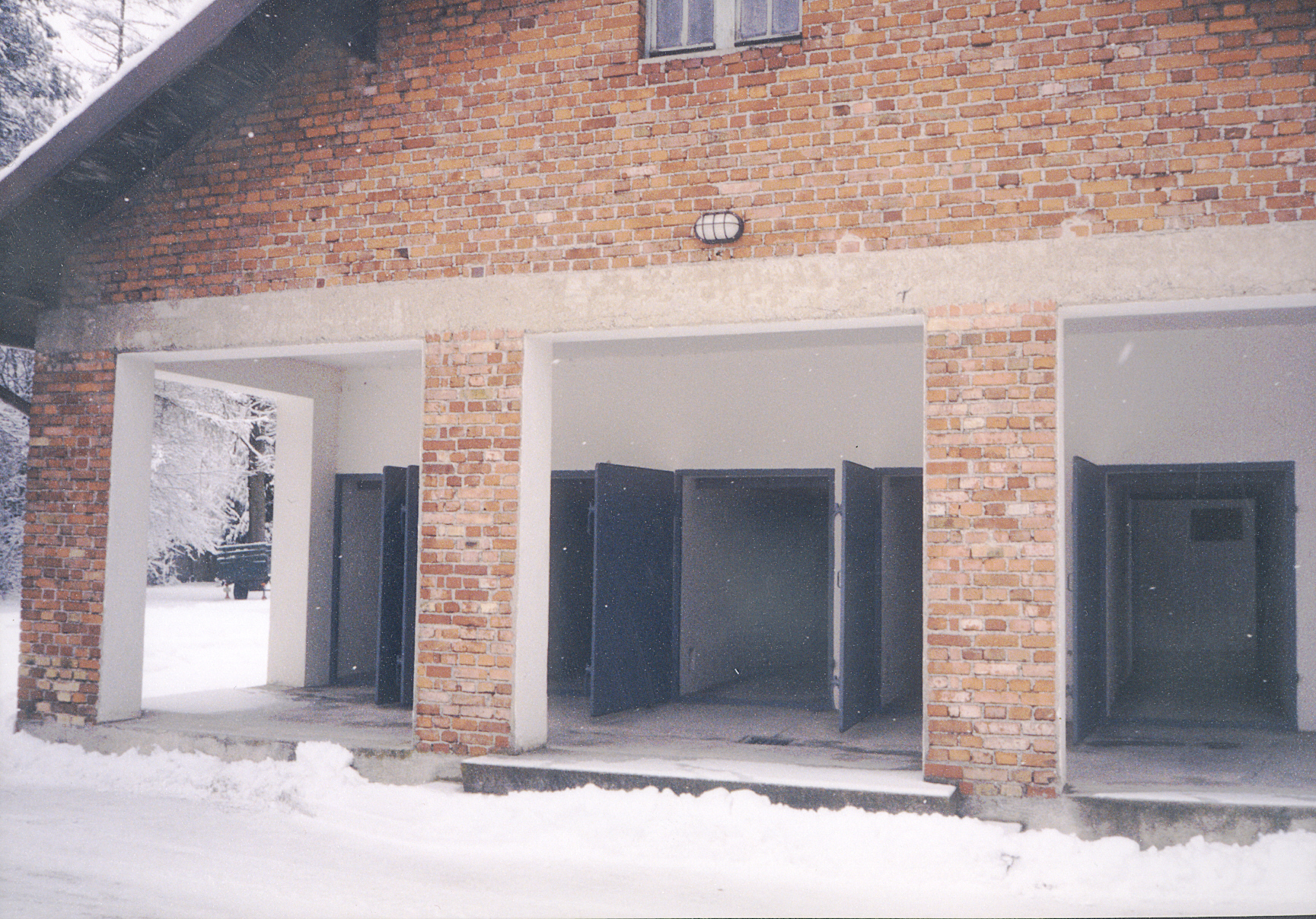 KL Dachau Block X entrace to gas chamber